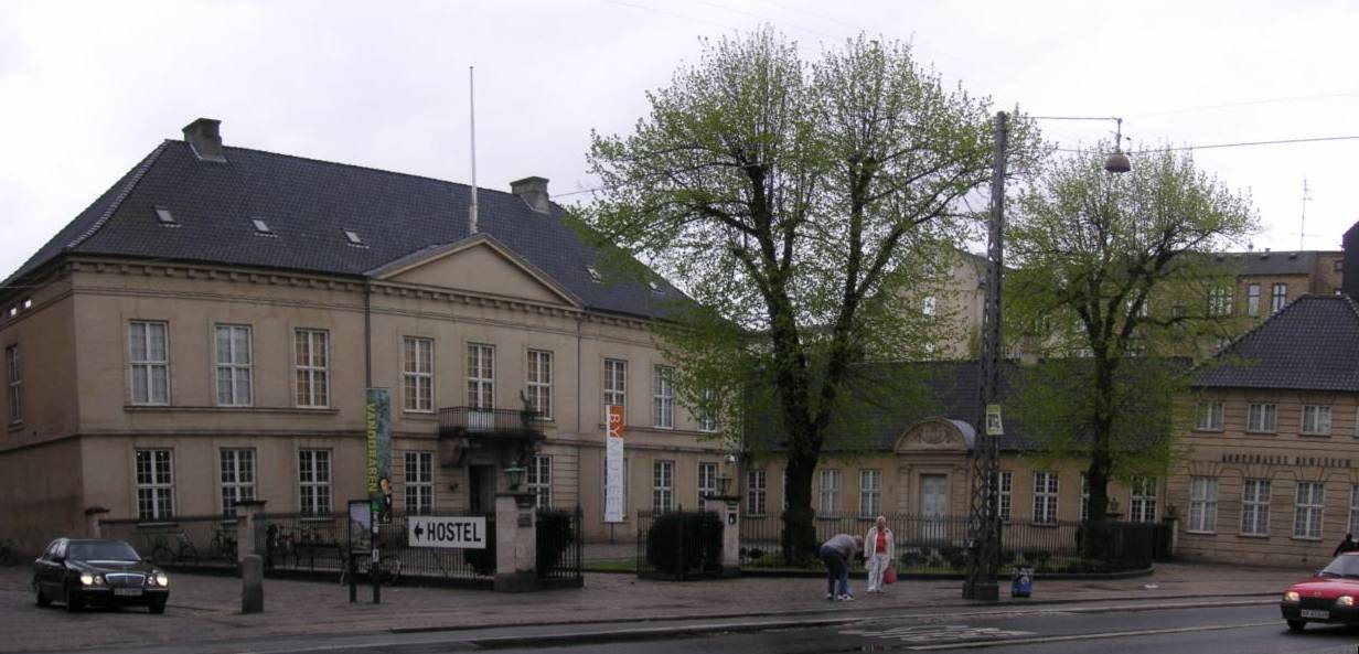 The City Museum in Copenhagen, Denmark.